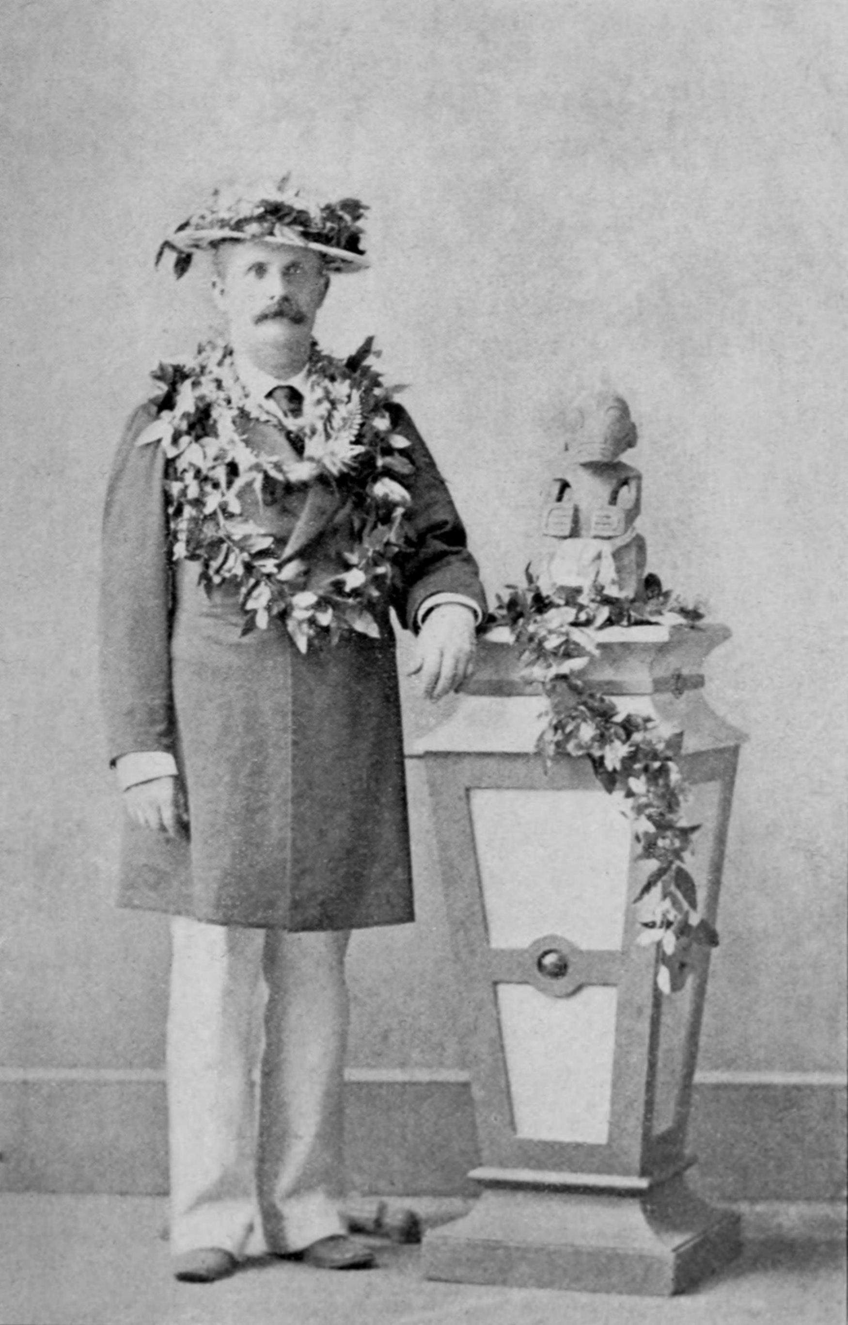 William Nevins Armstrong after a dinner party thrown by King Kalakaua. He was his royal aide who accompanied Kalakaua around the world and later wrote a book on his travels with the king. He also served in many political post in the Kingdom.